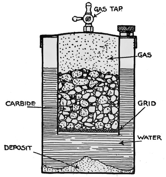 Carbide acetylene generator, diving bell type (Autocar Handbook, Ninth edition).jpg